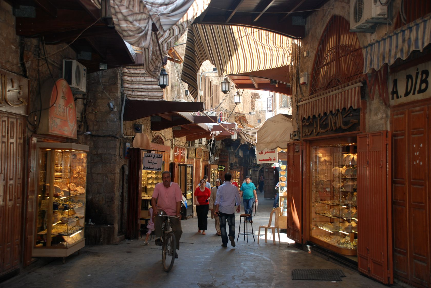 Tripoli, Lebanon, souk